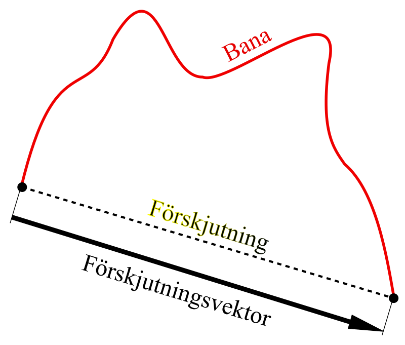 illustrats then the meaning of a displacement vector